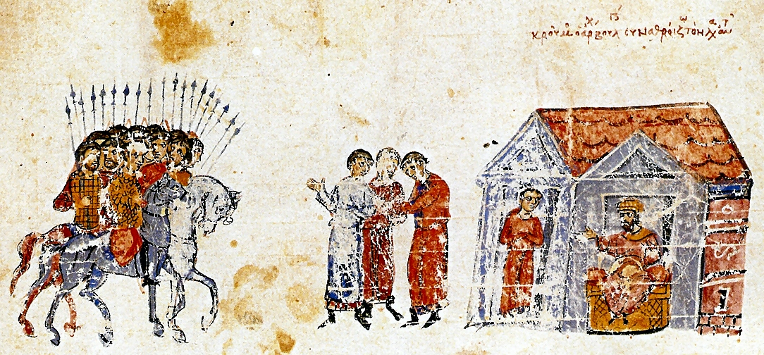 The armies of Krum (top) and Michael I Rangabe (bottom) before the Battle of Versinikia (813), Madrid Skylitzes, fol. 11r, detail